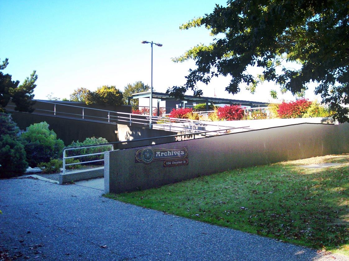 Major Mathews Building, City of Vancouver Archives.